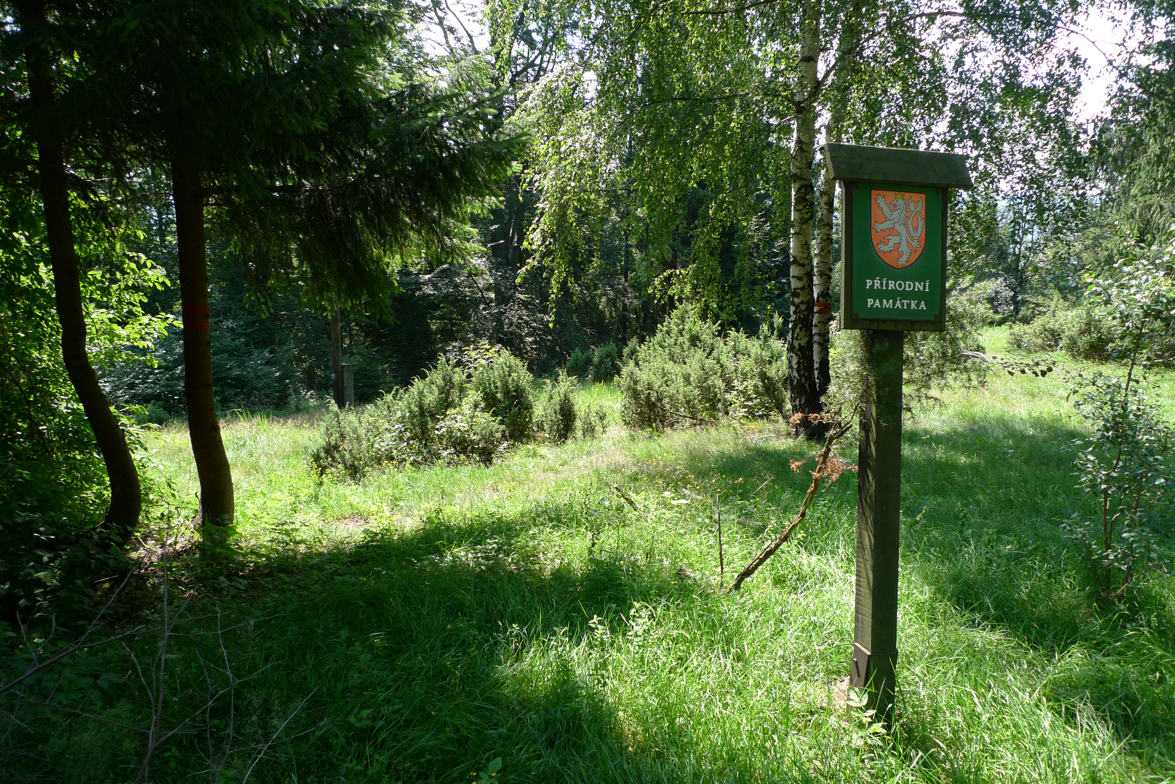 Protected area Filipka, Czech Republic